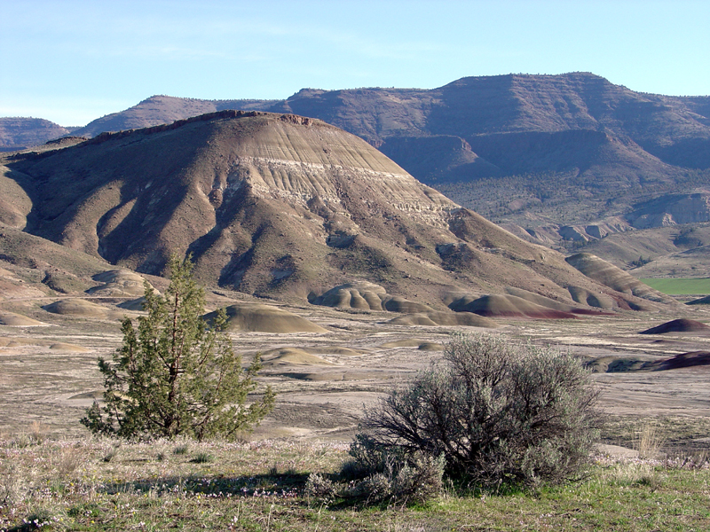 John Day Fossil Beds National Monument, Oregon - This view from the Painted Hills Overlook Trail shows the John Day Formation exposed on the southern flank of the Carroll Rim. The Picture Gorge Ignimbrite caps the rim. A 1.5 miles hiking trail leads to the top of the bluff from the Painted Hills Overlook/Carroll Rim trailhead parking area. This image shows a common sagebrush and a juniper in the foreground - both are common plants of the high desert in eastern central Oregon.